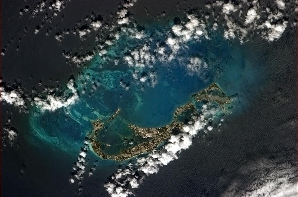 Bermuda pictured from the International Space Station